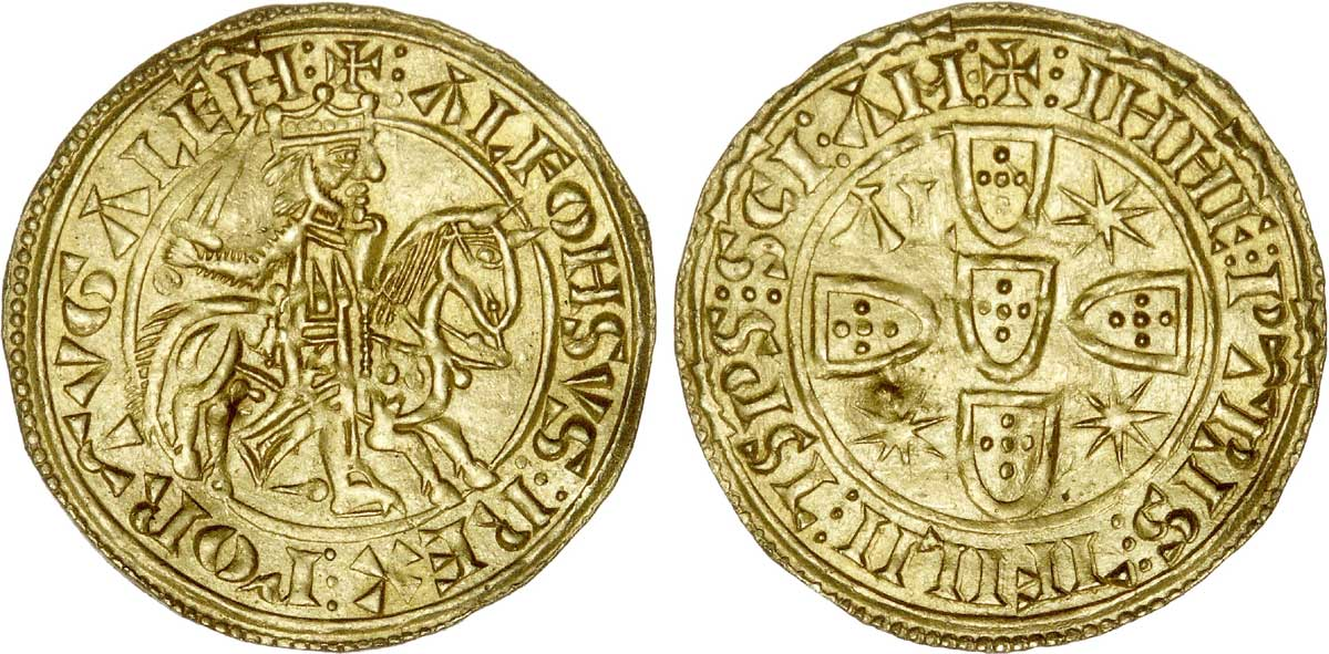 Description avers : Le roi barbu à droite sur un cheval, en armure, couronné, tenant une épée de la main droite et un bouclier de la main gauche . Traduction avers : (Alphonse, roi du Portugal) . Description revers : Cinq écus du Portugal formant une croix, cantonnée au 1 de AL, aux 2, 3 et 4 d’une étoile à huit rais . Traduction revers : (Au nom du père, du fils et du saint Esprit, je crois en Dieu) .